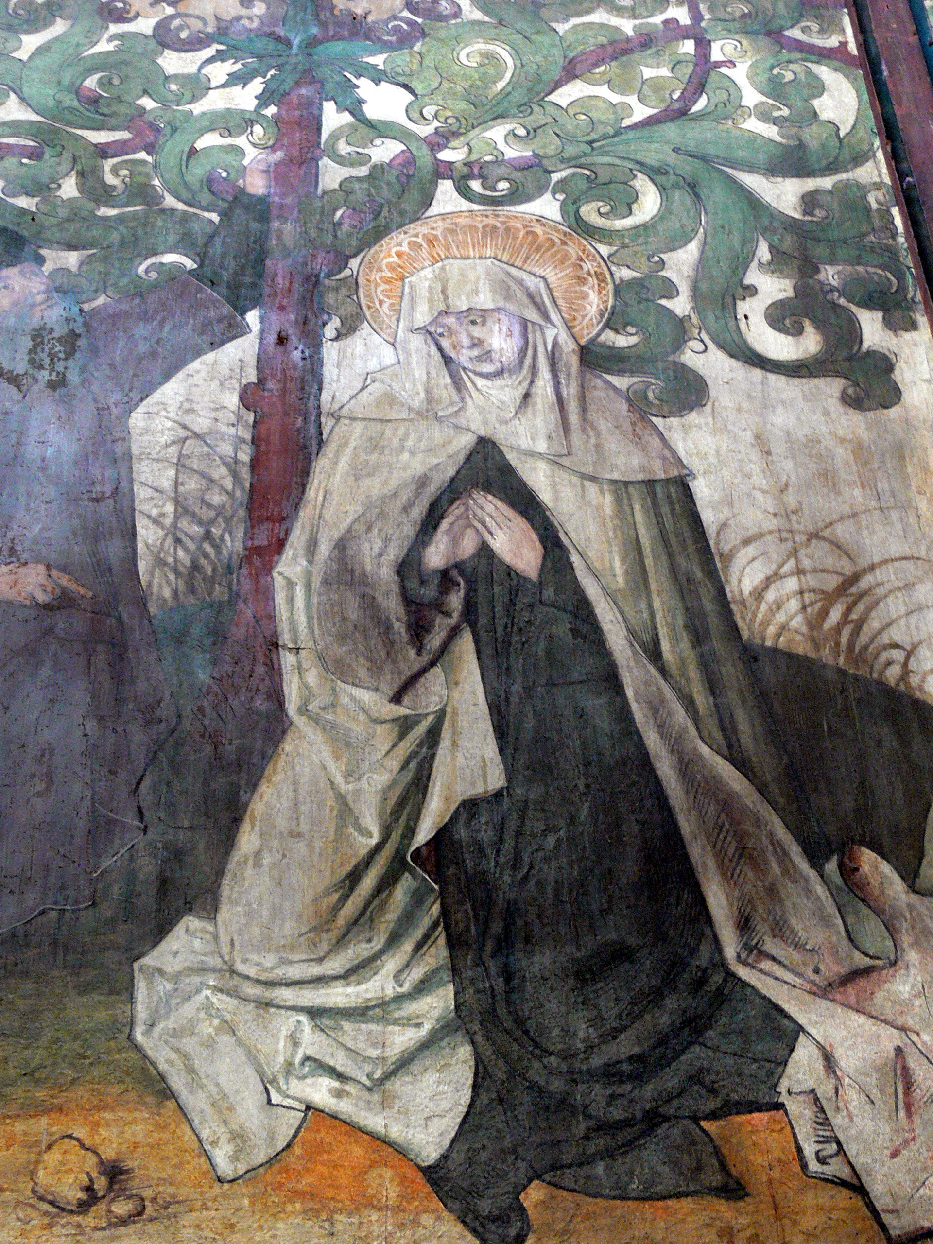 Schwabach - City church. Rear side of the high altar: Saint Anne near Christ´s family tree